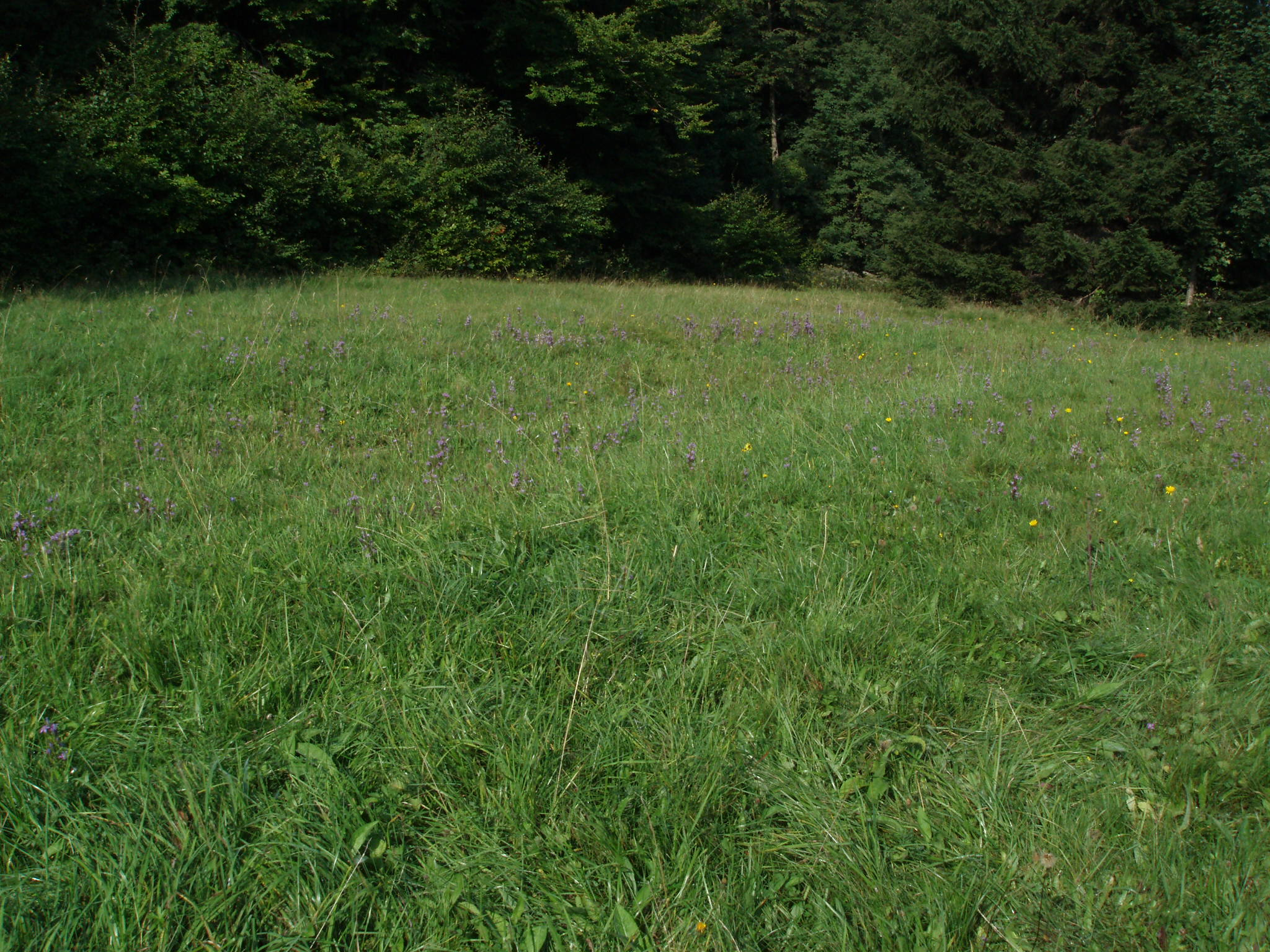 Nature reserve Hořečky in Rychnov nad Kněžnou, Czech Republic